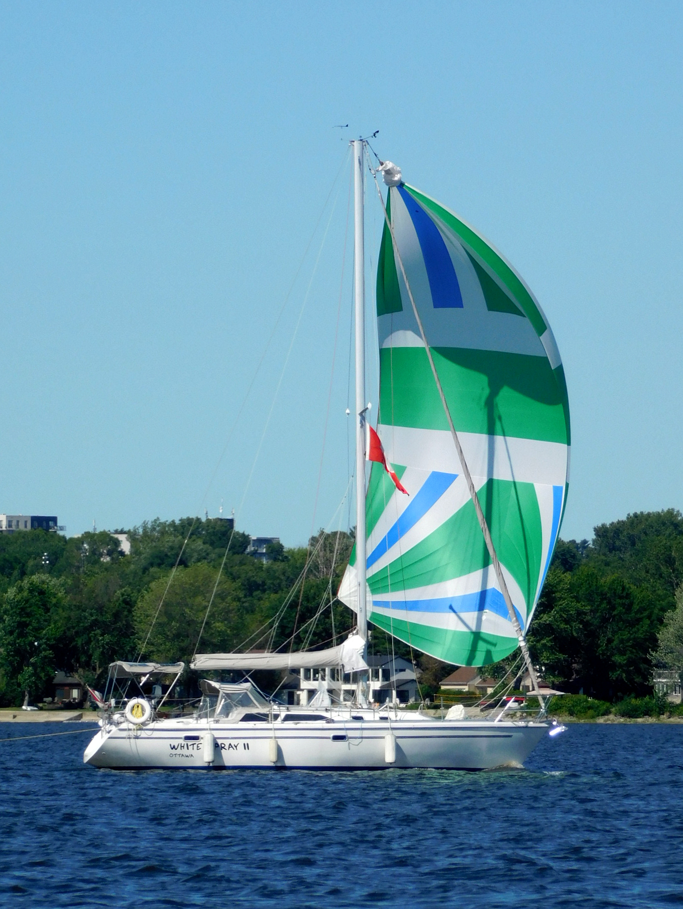 A Catalina 36 Mark II sailboat named White Spray II.